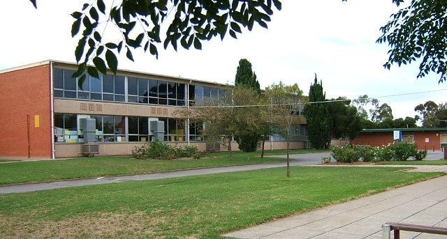 A picture of Mansfield Park Primary School in Mansfield Park, taken by Blnguyen on April 2, 2006.